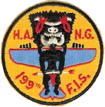 199th Fighter-Interceptor Squadron - F-47 Thunderbolt Patch